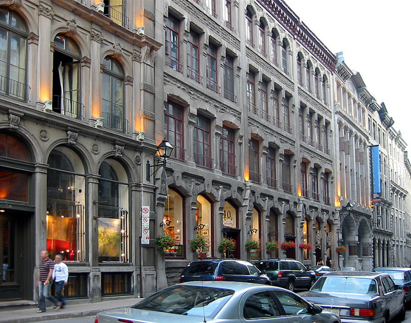 A gentle curve in Vieux Montreal draws pedestrians down rue St Paul